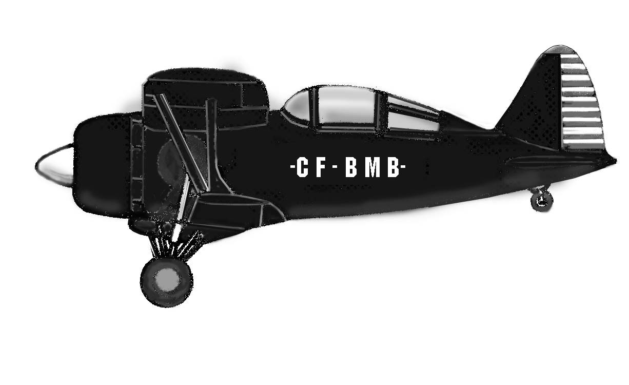 Side-view illustraion of the Canadian Car & Foundry (Gregor) FDB-1 biplane fighter aircraft.